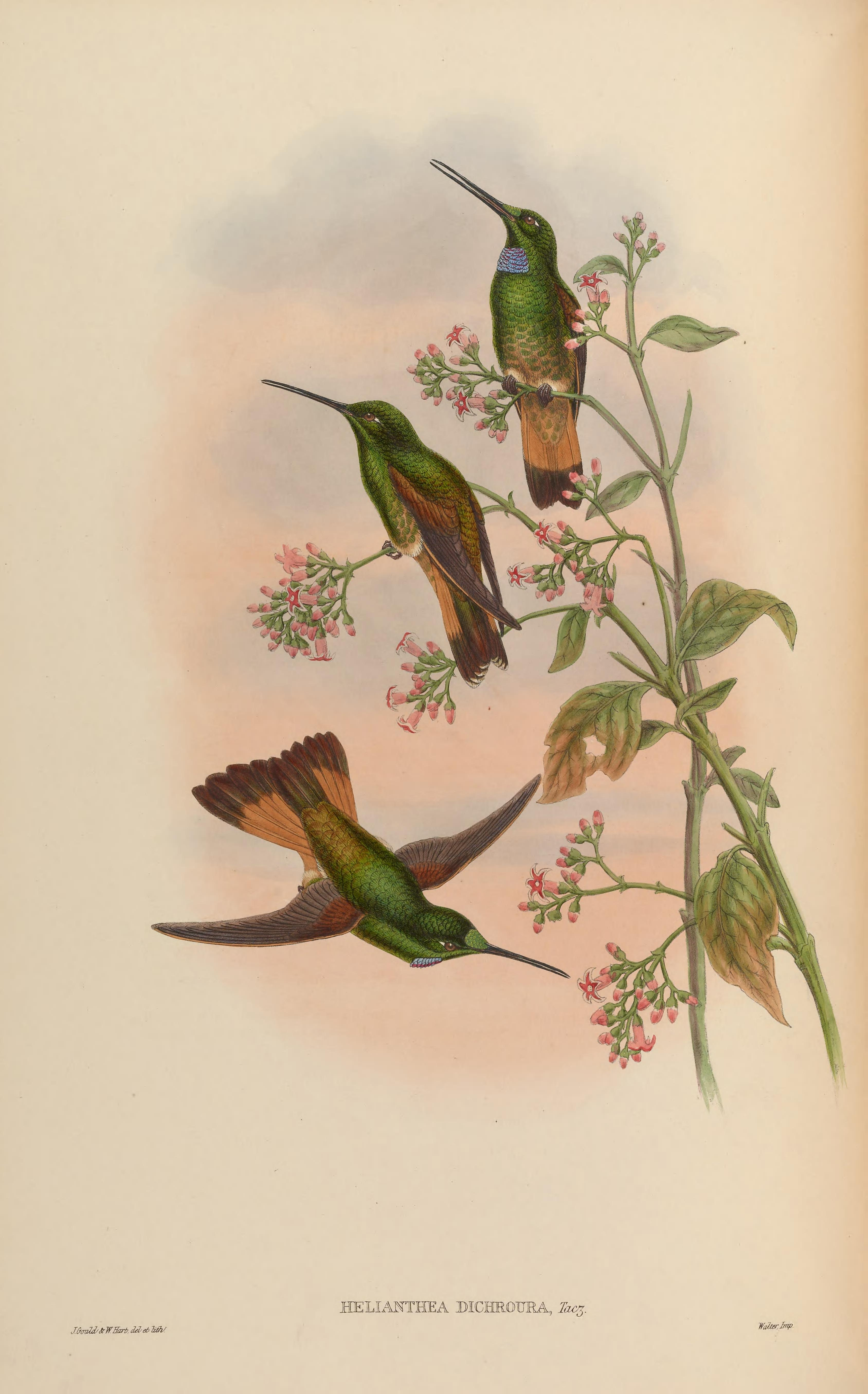 Helianthea dichroura = Coeligena violifer dichroura [1]